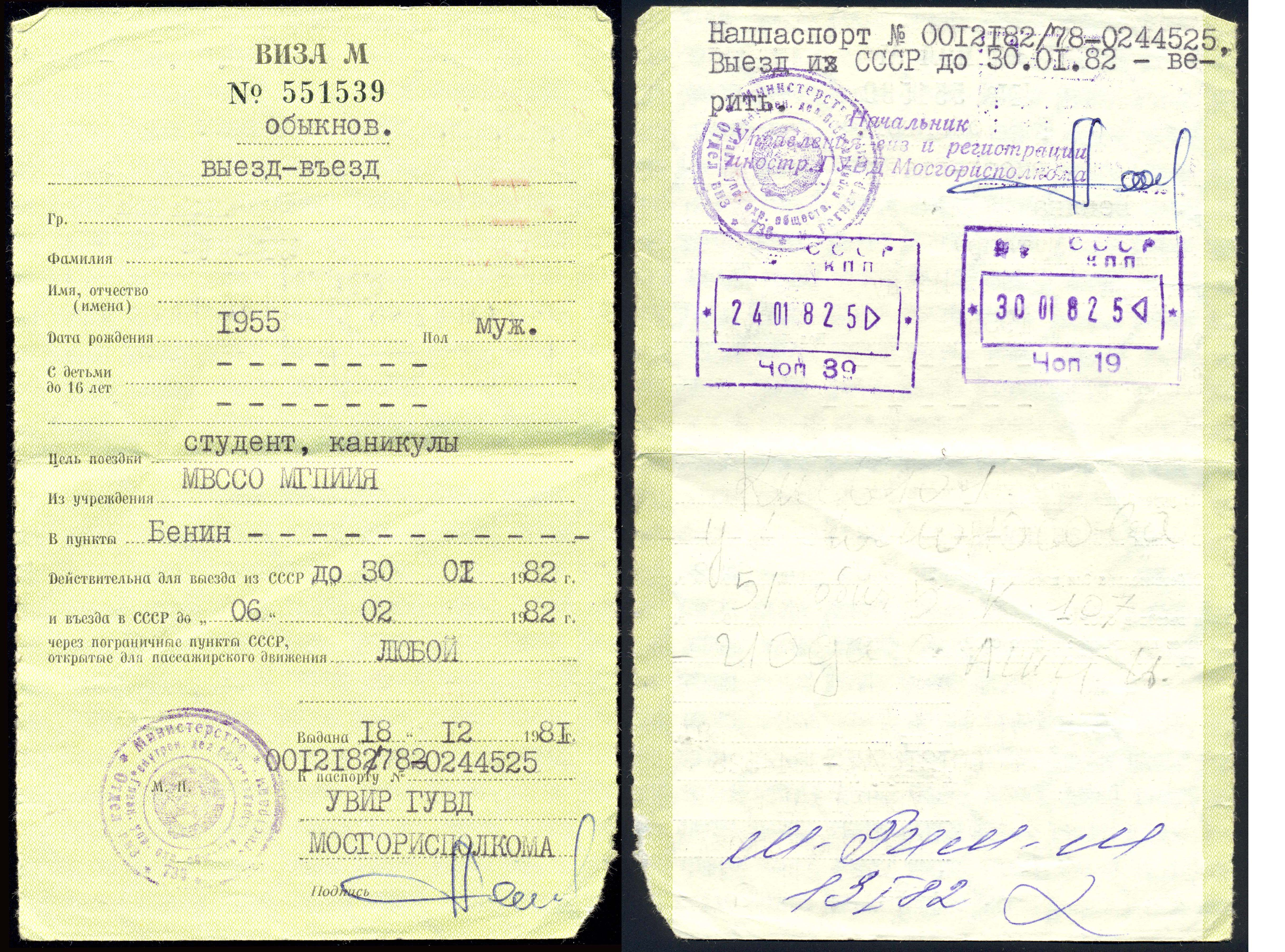 USSR Visa of 1982 (person's name and nationality deleted).